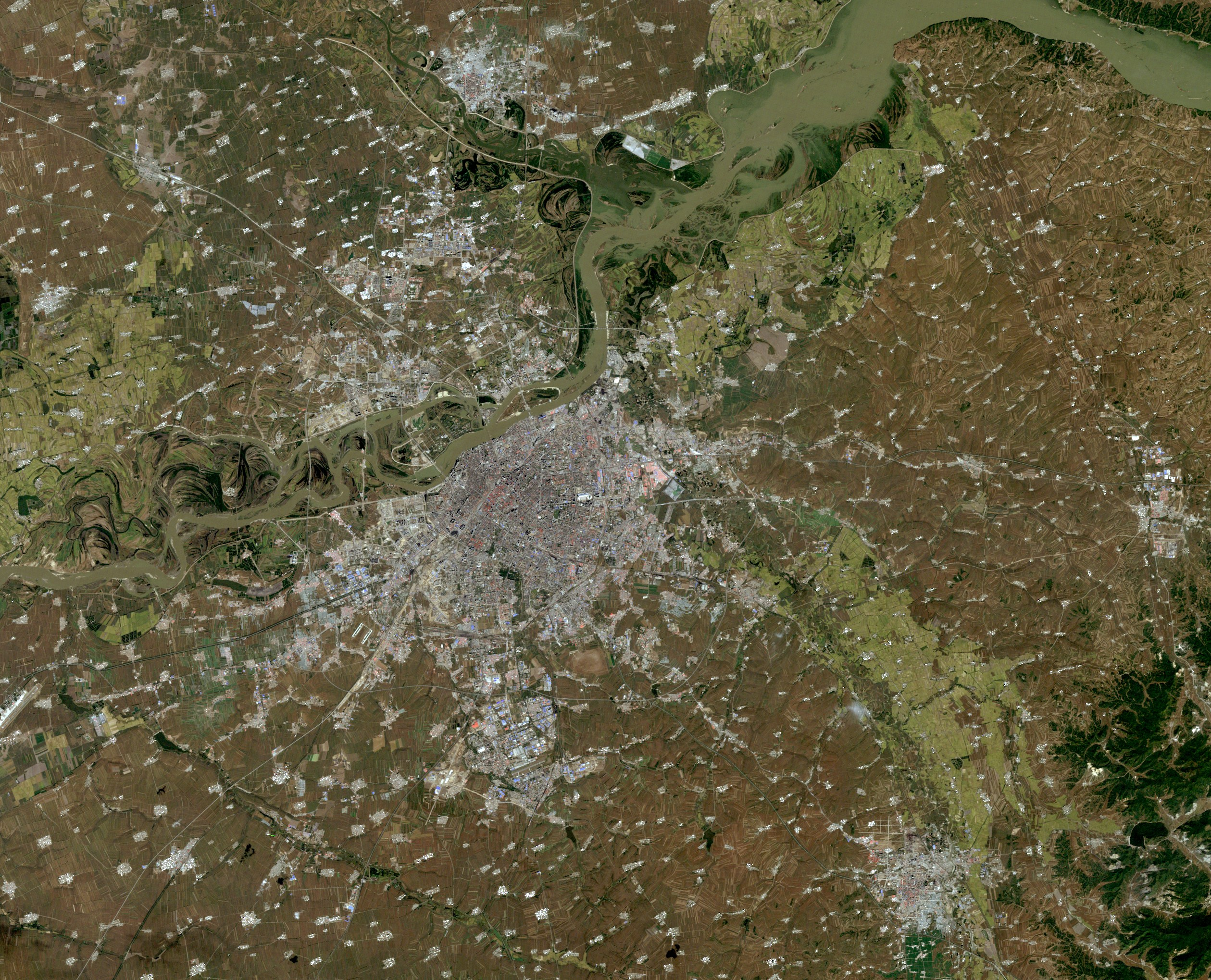 Harbin, China, and vicinities, near natural colors, LandSat-5, 2010-09-22 image ID LT51180282010265MGR01